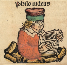 This is a part of a scan of an historical document: Title: Schedelsche Weltchronik or Nuremberg Chronicle